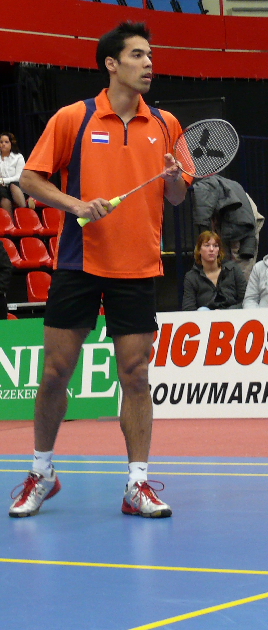 Eric Pang (the Netherlands)